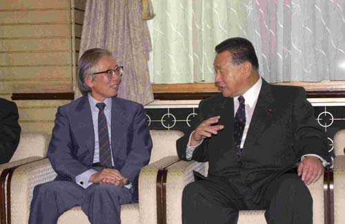 Hideki Shirakawa, Professor Emeritus of the University of Tsukuba, met Yoshirō Mori, Prime Minister, at the Prime Minister's Official Residence in Chiyoda Ward, Tōkyō Metropolis on October 18, 2000.